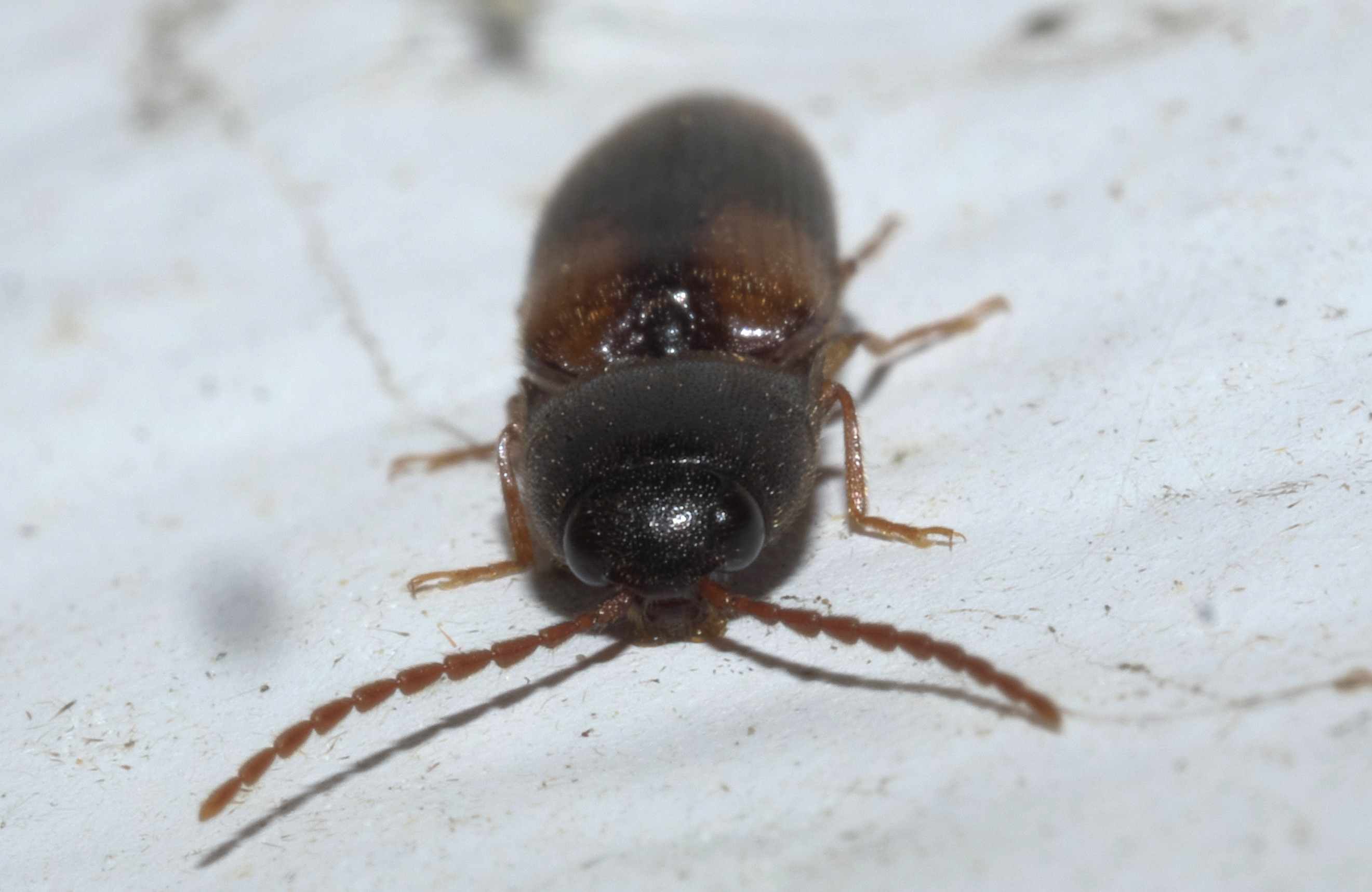 Anchastus binus, Family: Click Beetles, ID Confidence: 98